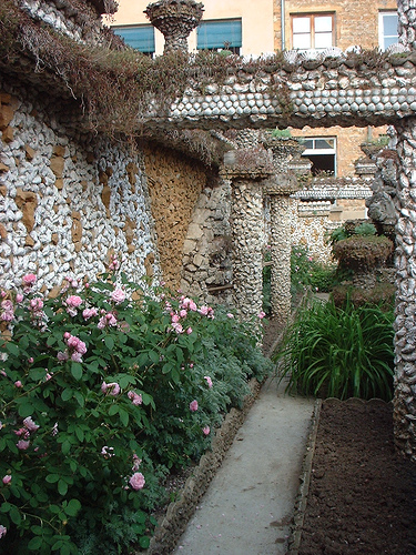 Garden named Rosa Mir in Lyon in France - alley with flowers